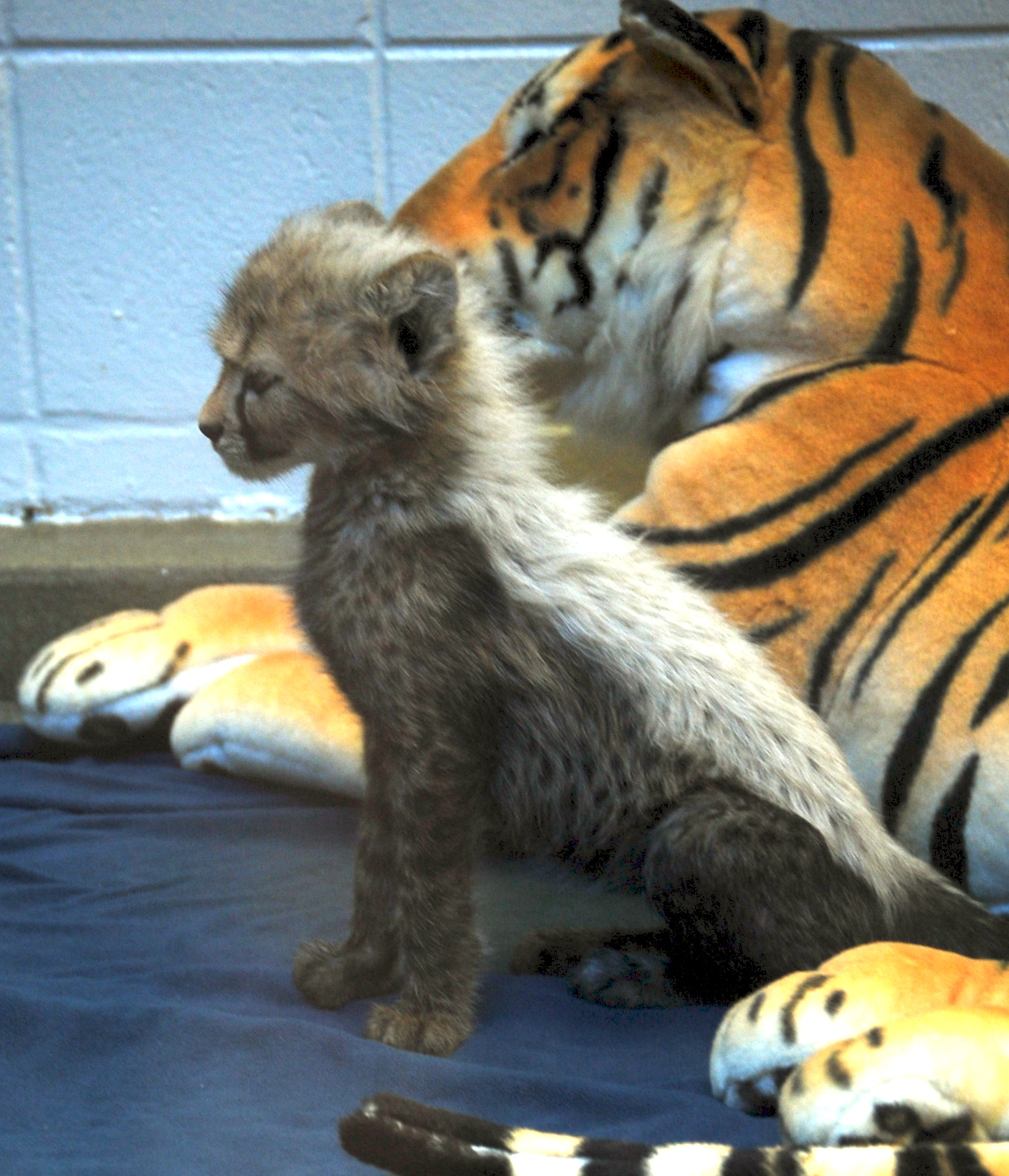 Sitting Cheetah